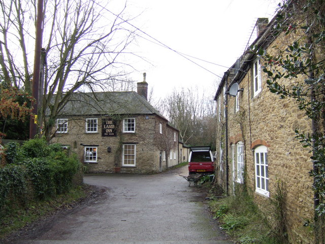 View west along a lane in Buckland, Oxfordshire (formerly Berkshire). Ahead is the Lamb Inn. On the right is Lavender Cottage.